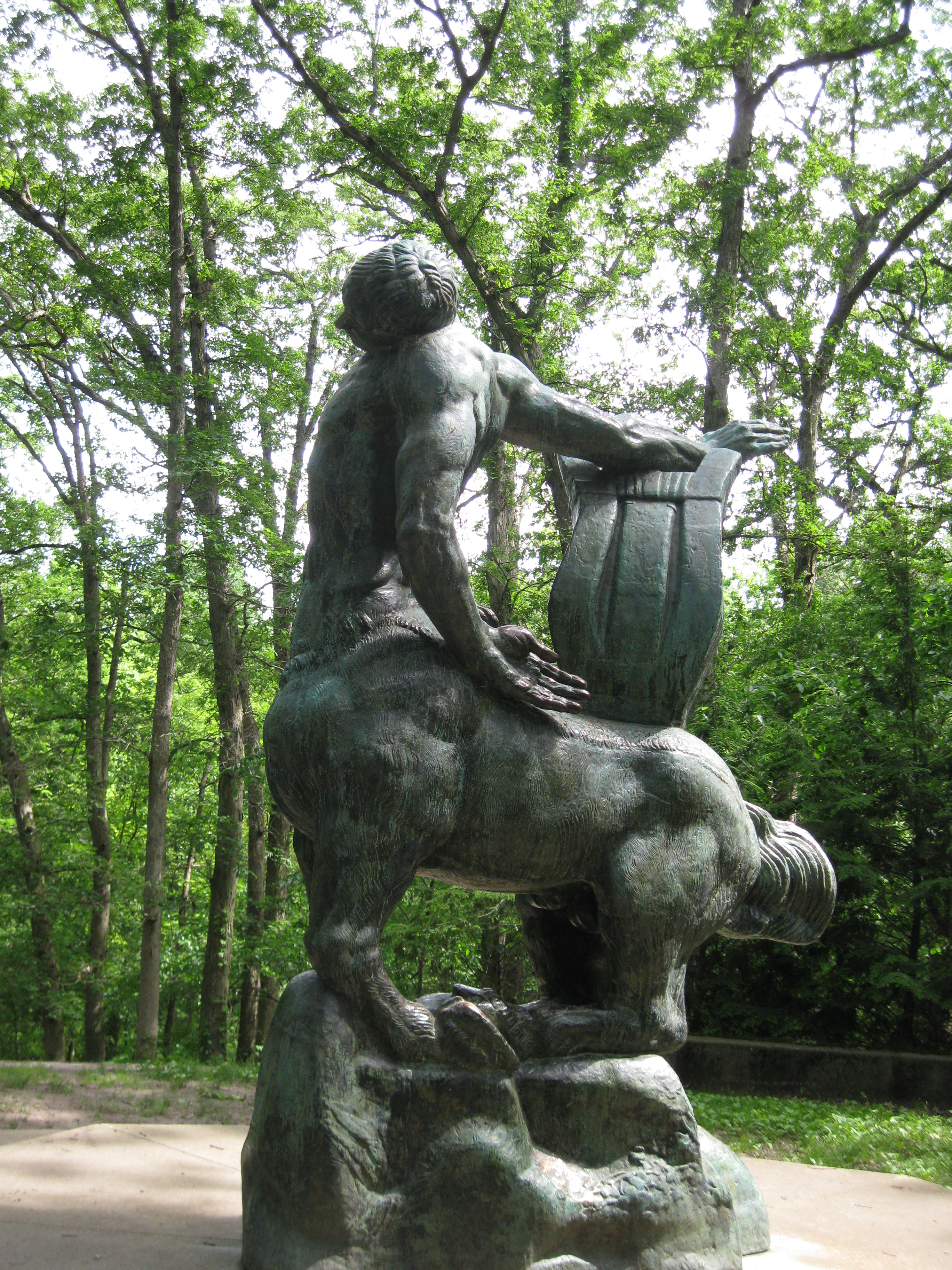 Photo of Death of the Last Centaur in Allerton Park